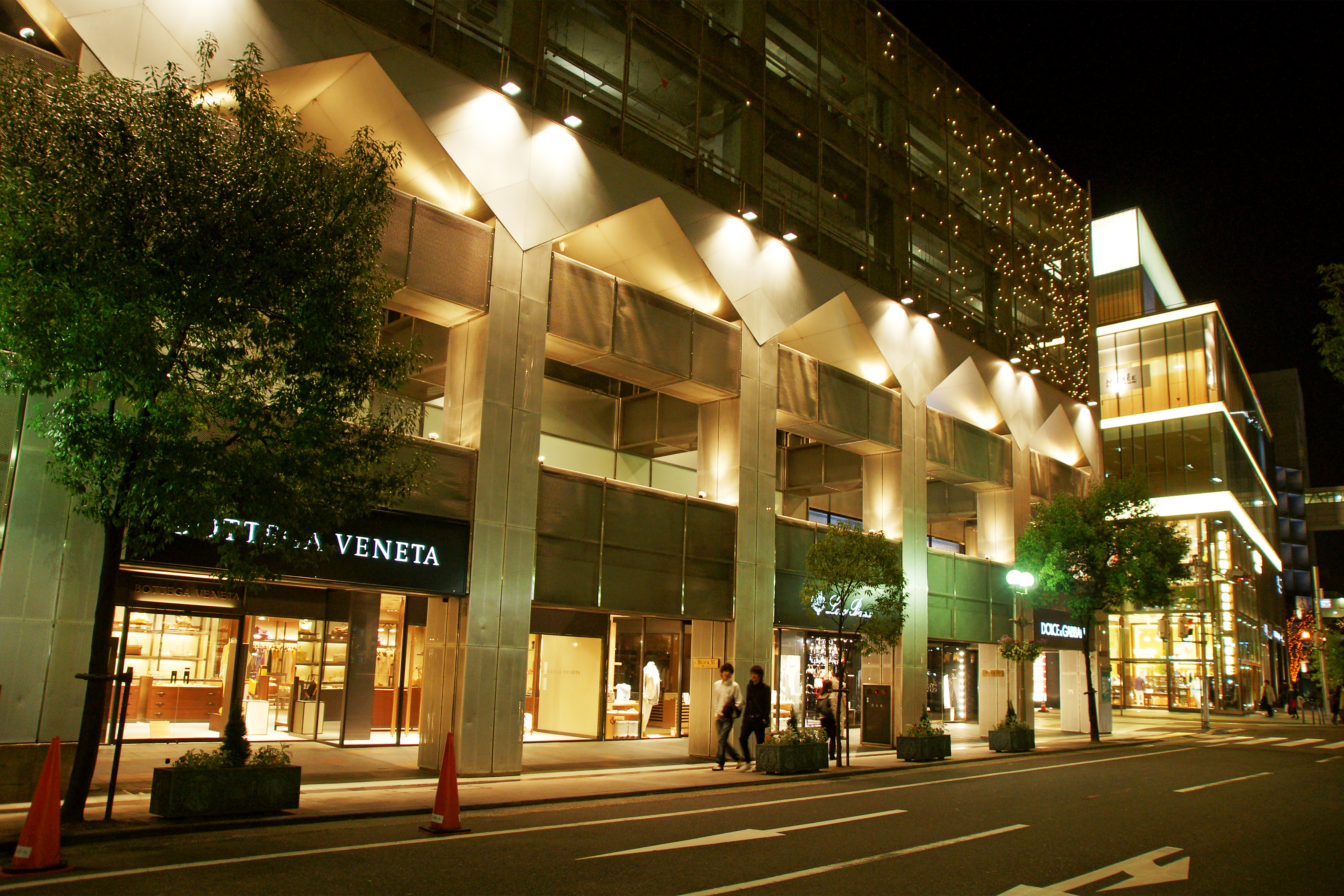 BLOCK30 in Kobe, Hyogo prefecture, Japan